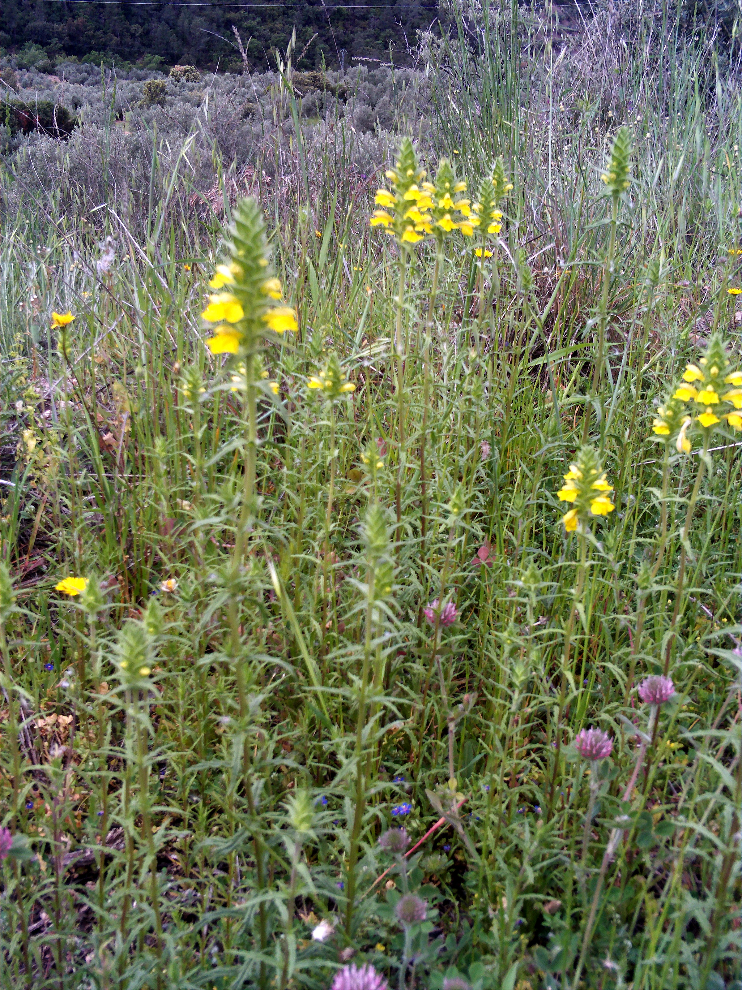 Parentucellia viscosa habitat, Sierra Madrona, Spain